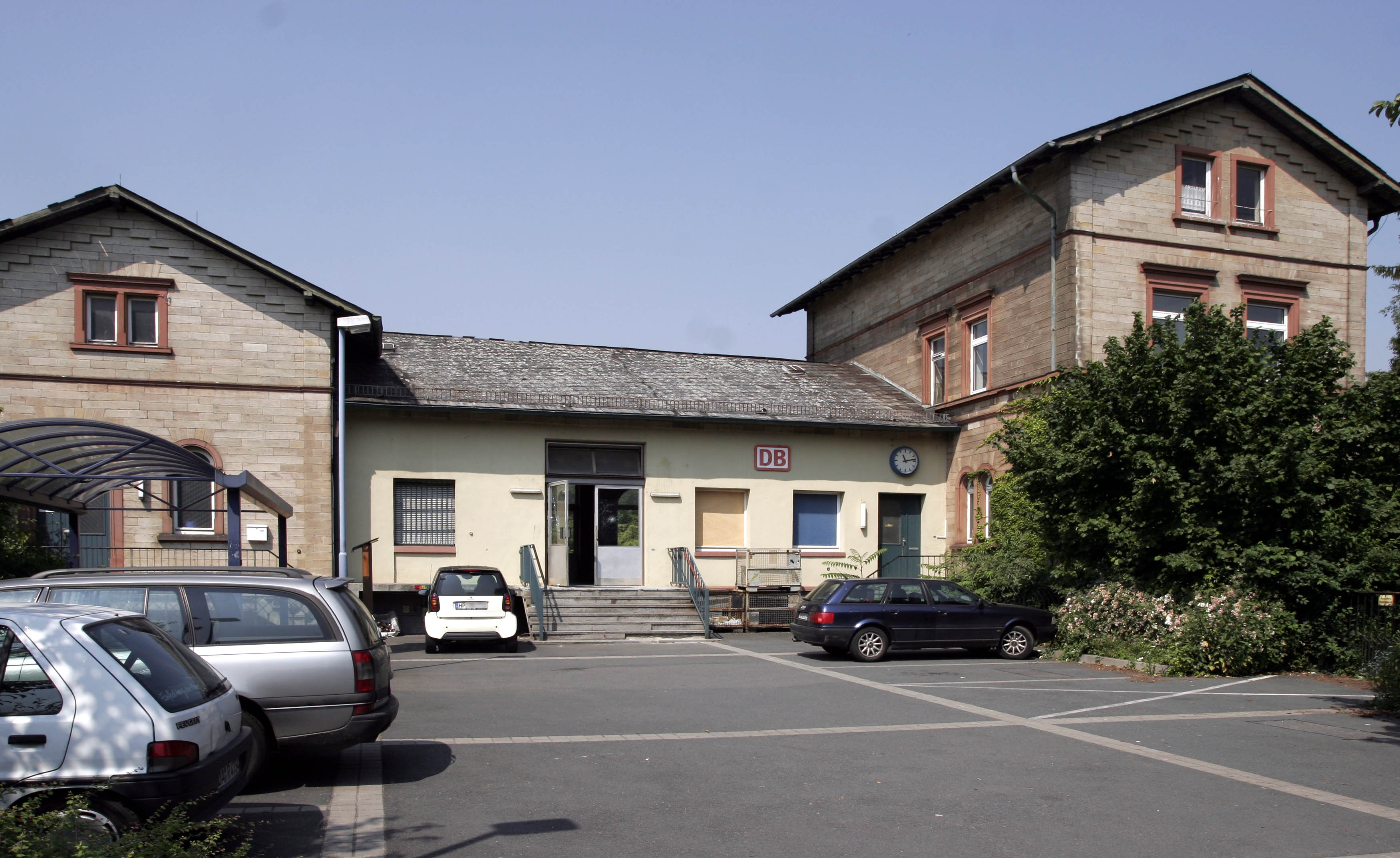 The Railwaystation of Zwingenberg (Bergstraße) in Germany.